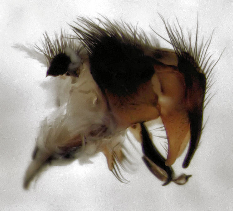 Xenocalliphora viridiventris (male hypopygium in lateral view)